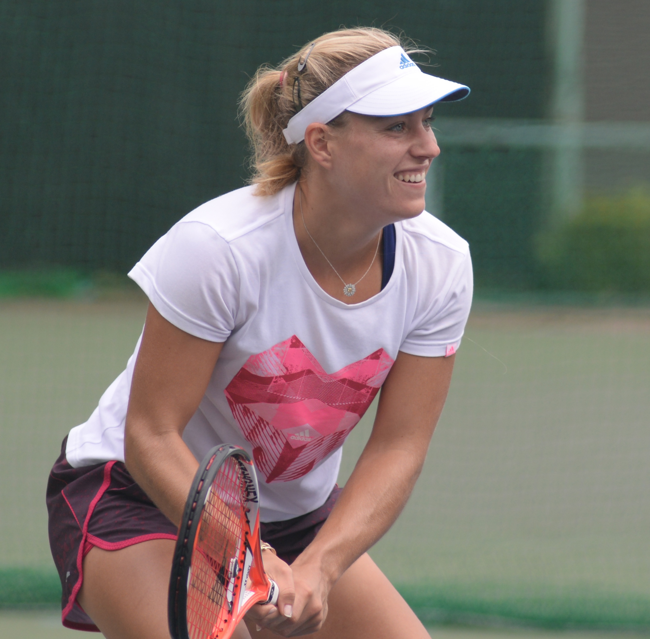 Angelique Kerber at the 2014 Toray Pan Pacific Open